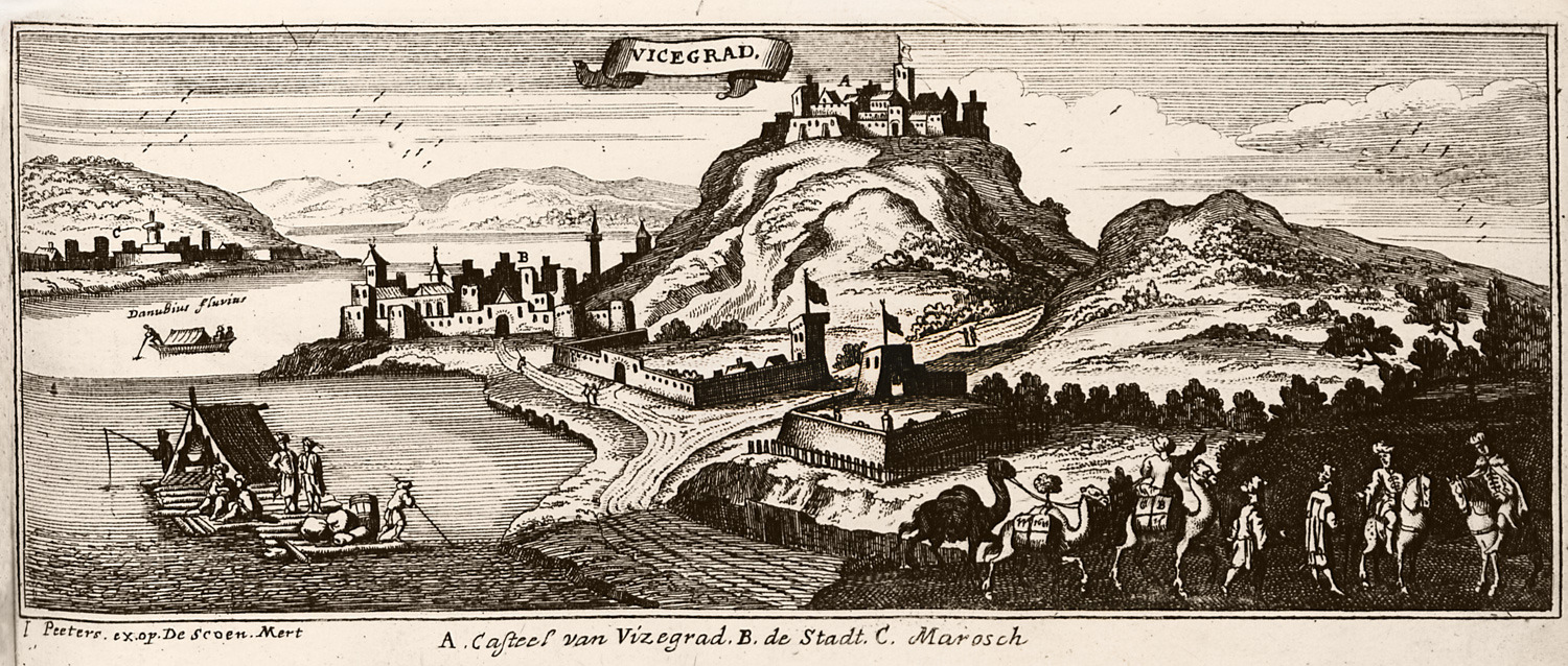 Jacob Peeters. Korte Beschryvinghe, Ende Aen-Wysinghe der Plaetsen in desfn Boeck, met hunnen teghenwoordigen Standt, pertinentelijck uytghebeldt, in Oostenryck, Antwerp, 1686